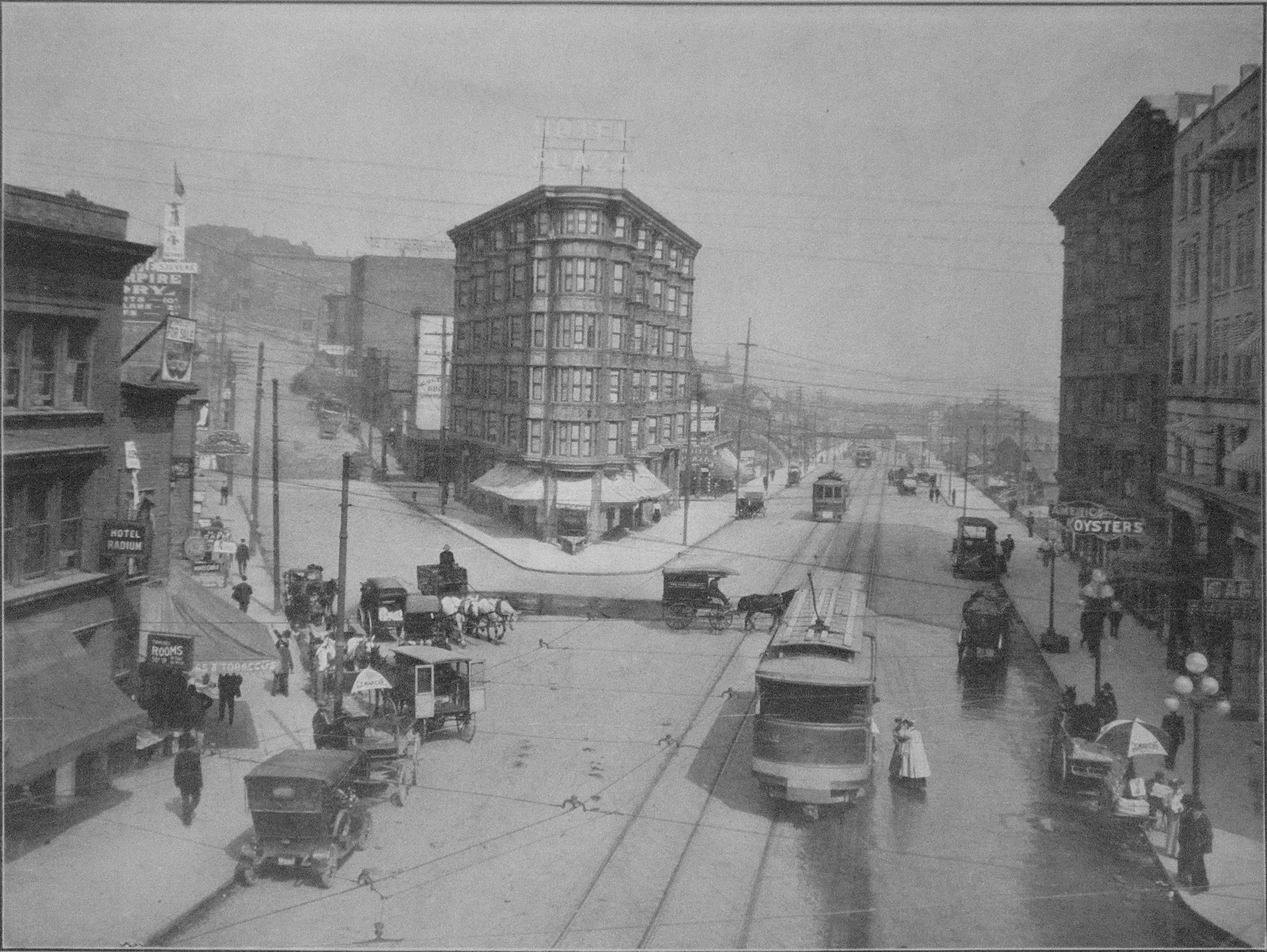 Westlake Boulevard, Seattle, Washington, c. 1909 (probably a bit earlier). Fourth Avenue rises away to the left (so this is after Westlake Boulevard—now Westlake Avenue—was regraded, but before Fourth Avenue was). The Hotel Plaza stood where Westlake Park stands today. The Hotel Radium would have been roughly where the Century Square building now stands. This view is now blocked by Westlake Mall, and the first two blocks of the street no longer exist.